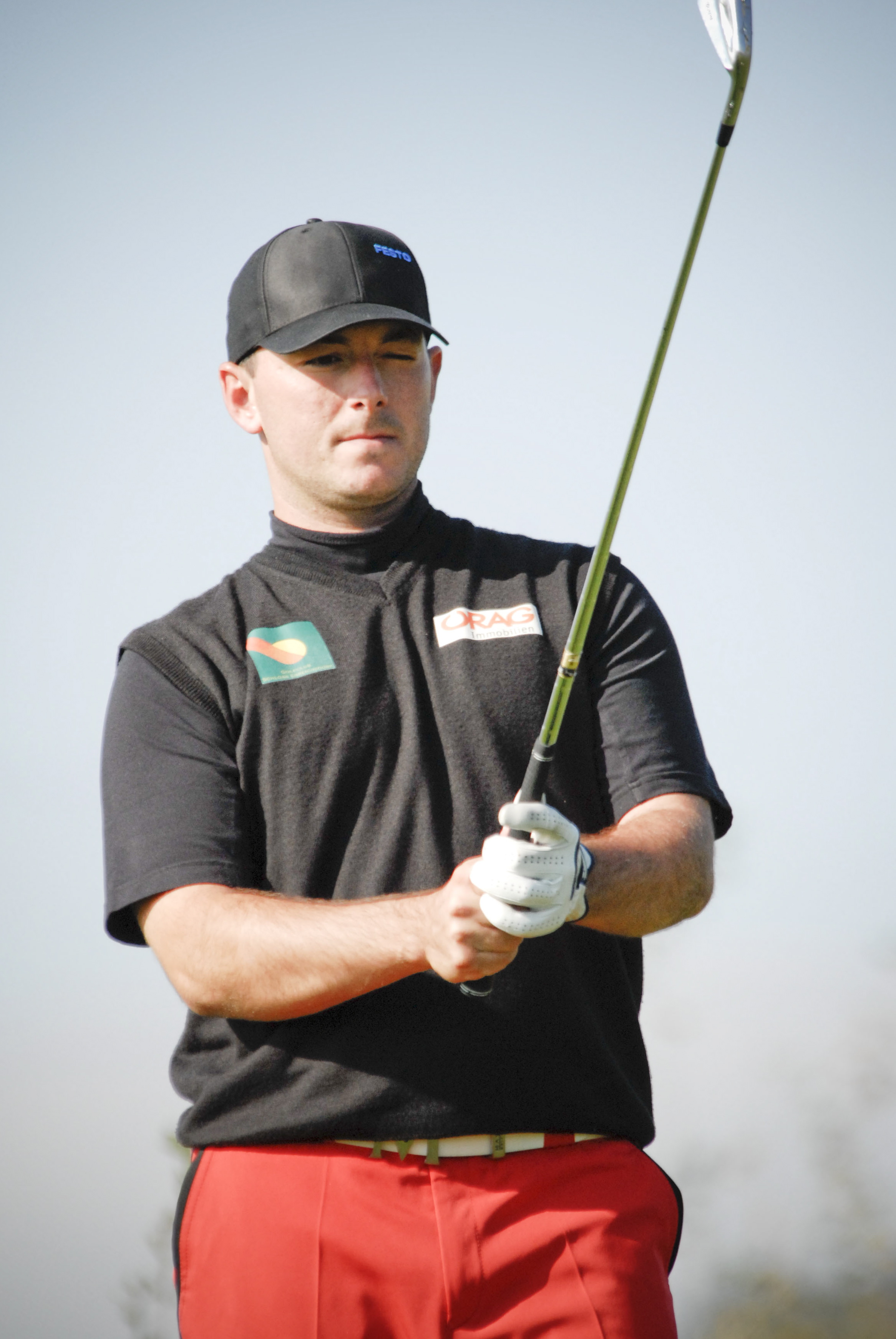 Hannes C. Pfaller, Austiran Golf Professional